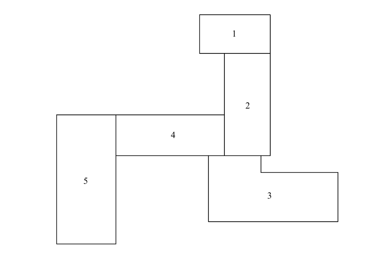 Simplified plan of the Bauhaus building of Dessau: 1. Studio building - 2. Festive area (auditorium, stage and canteen) - 3. Workshop - 4. Bridge (administrative premises)- 5. Vocational school.